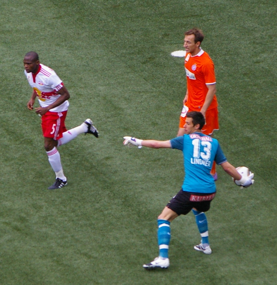 Heinz Lindner goalkeeper FK Austria Wien, Manuel Ortlechner Rabiu Afolabi(Red Bull Salzburg